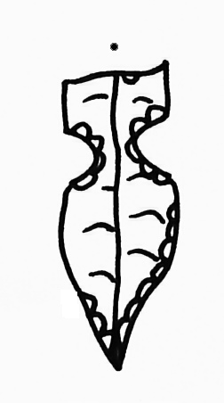 El Khiam point. Pre-Pottery_Neolithic_A